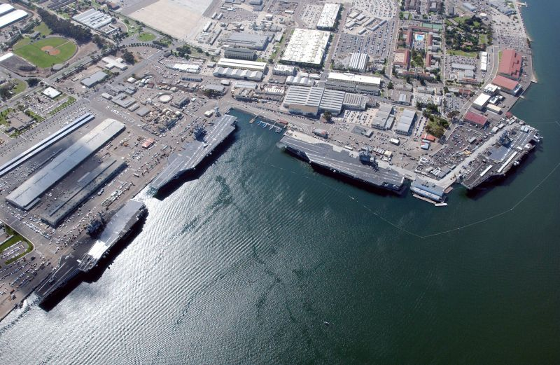 San Diego, Calif., Sept. 30, 2002 — An aerial view of San Diego Harbor with four of the Navy's aircraft carriers moored at the Naval Air Station, North Island. The carriers are (from left) USS Constellation (CV-64), USS Carl Vinson (CVN-70), USS Nimitz (CVN-68) and USS John C. Stennis (CVN-74). It is rare to have this many carriers in port at any one time.